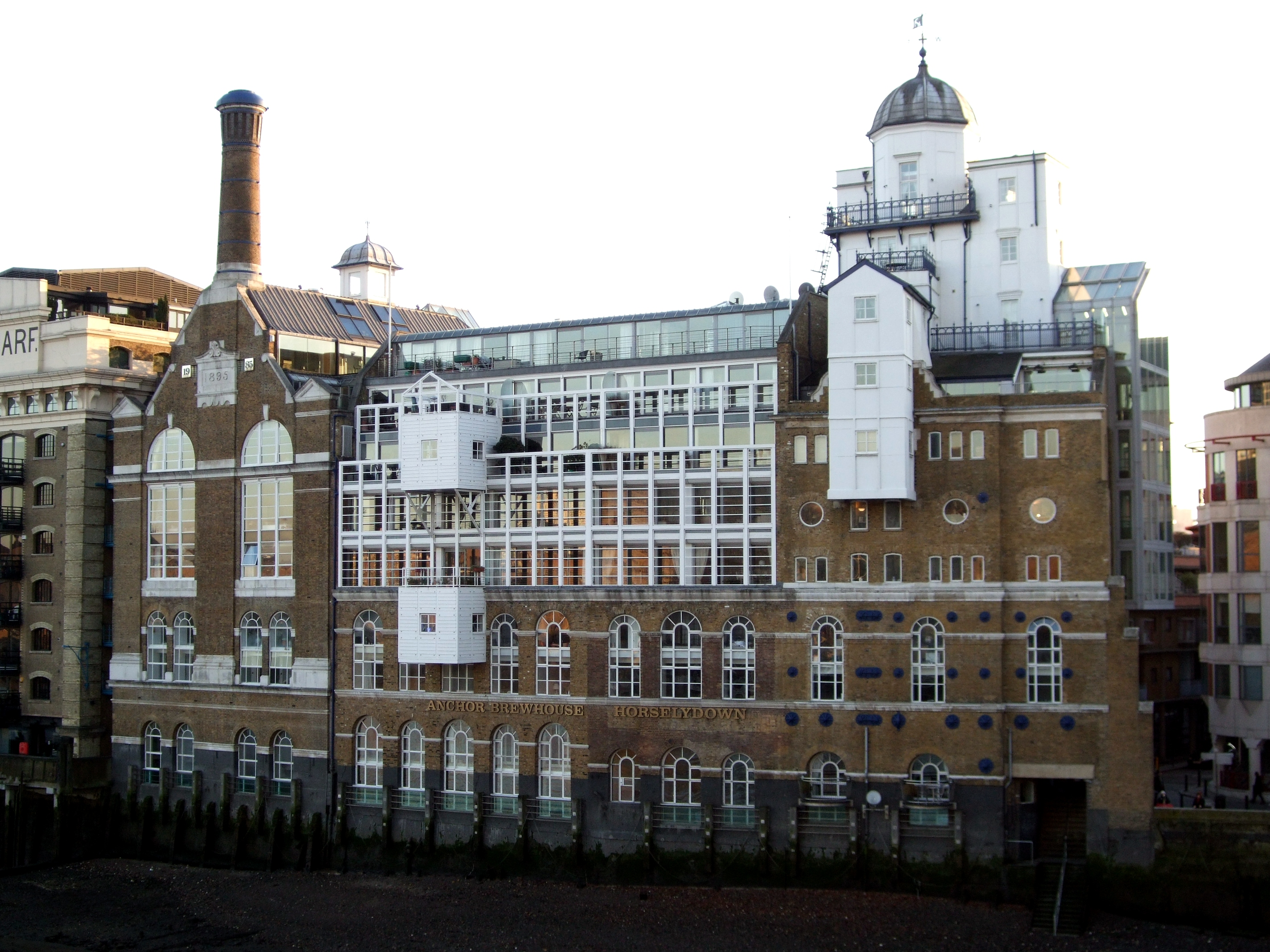 This is a former brewery on Horselydown Lane, alongside Tower Bridge, closed in the 1980s and since converted to apartments. It's brewery tap was the nearby Anchor Tap. The brewery was founded by John Courage in 1787 (whose Courage brand, symbolised by the rooster, can still be seen on many London pubs), and sold to Barclay Perkins in 1955. The latter company were based not far away at another Anchor Brewery (served by the Anchor pub, which is all that remains of it). The subsequent chain of ownership is too complicated to recount here. Links: Wikipedia